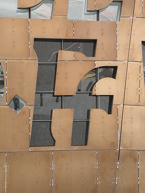 Give me an "Ff"! The windows behind this component of the Welsh inscription (see e.g. 1259760) reflect a fractured image of Roald Dahl Plass. This is the only lower case letter in the whole inscription, but then it is also the only Welsh digraph. Ffar be it from me to suggest that the architect originally spelt it FWRNAIS and had to improvise a correction.